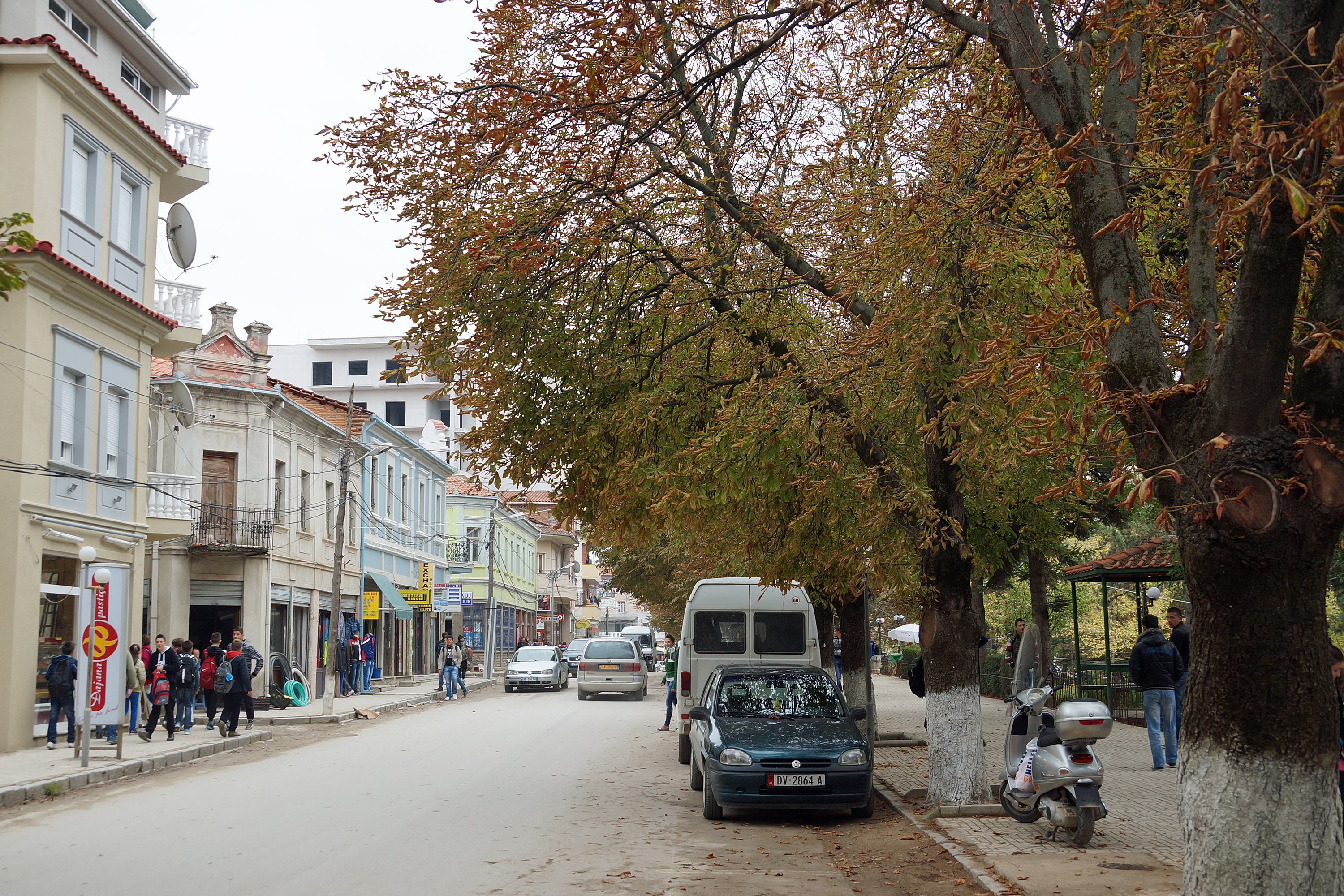 Bilisht, Albania – Main Street